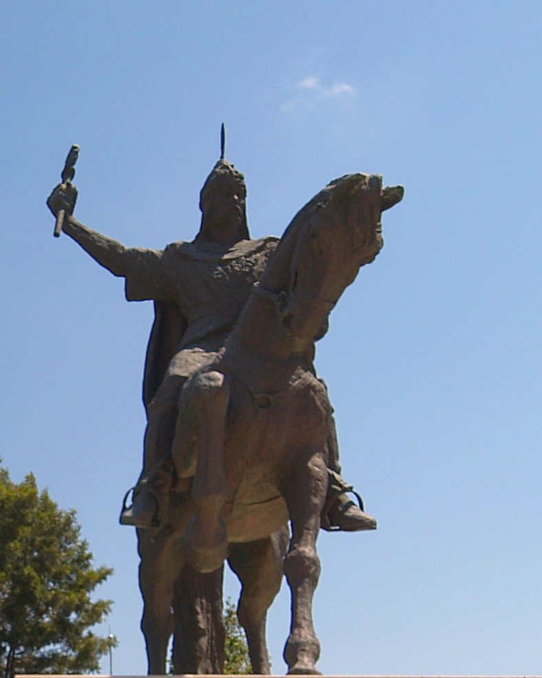 Statue of Seljuk Sultan of Rum Kayqubad I (also known as "'Alā al-Dīn Kayqubād bin Kaykā'ūs" and "I. Alâeddin Keykubad") in Alanya, Turkey